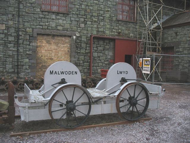 A Velocipedes or 'Car Gwyllt' The Welsh term 'Car Gwyllt' (meaning fast or furious car) is used for the device known to the English-speaking world as the Velocipedes, and which could move along rails at speeds of up to 40 mph. They were manually propelled, either by the turning of handles in the case of 'Malwoden Lwyd' (grey snail), or by fast and furious pedalling. Each car carried 8 men. Fatal accidents were not unknown and the management introduced a regulation banning cars from travelling closer than 25 yards to the next vehicle. Dinorwig Quarry document 1563 shows that on 23 July 1894 Robert Williams (Victoria)was punished for running his Velocipedes within 10 yds of the one in front causing an accident. He was suspended without pay from the quarry for 3 days.